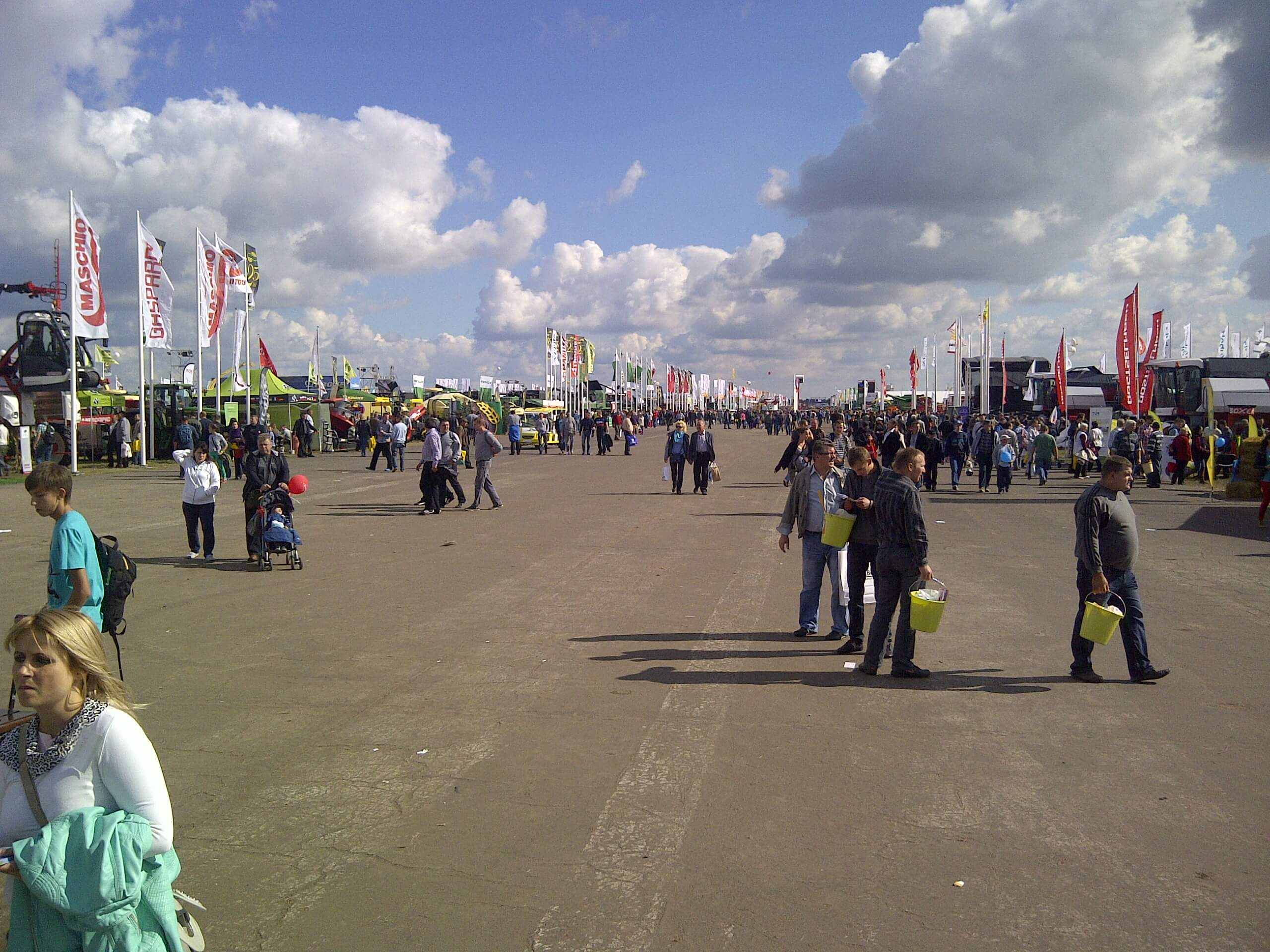 Agroshow, Bednary